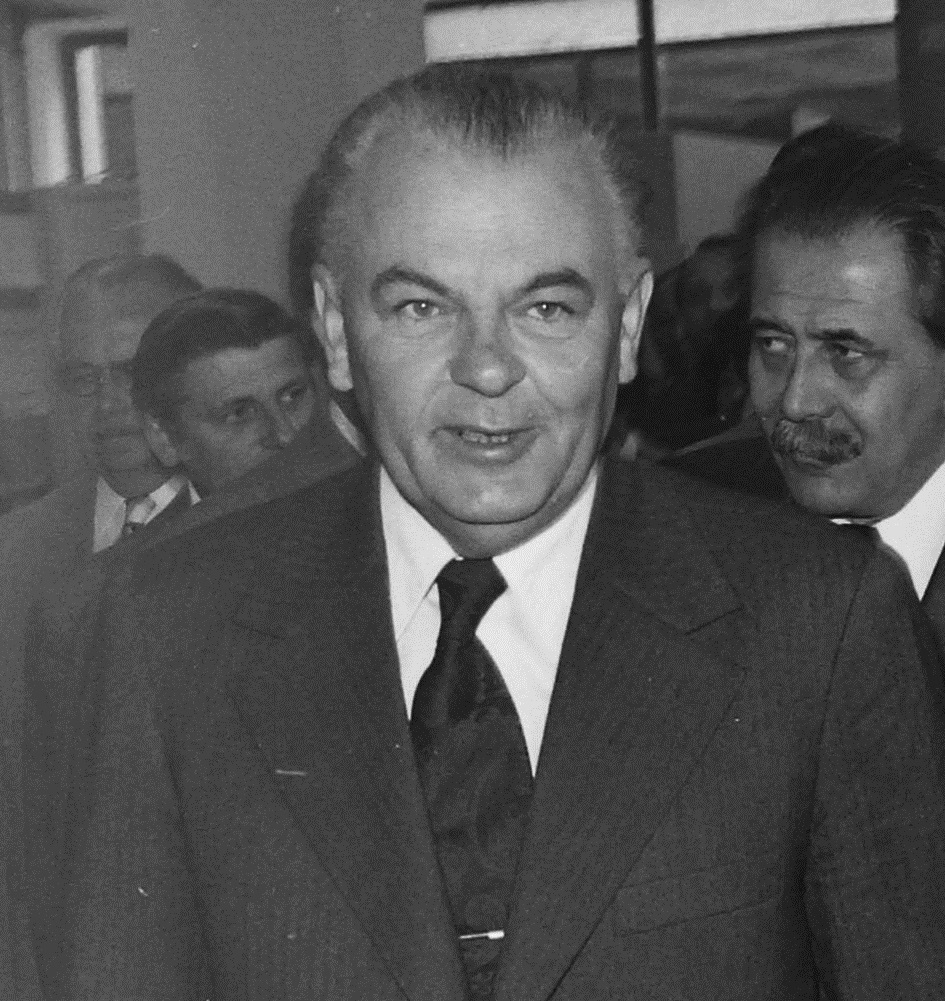 Hungarian communist politician Károly Németh in 1977. He served as Chairman of the Presidential Council (i.e. nominal head of state) between 1987 and 1988. Behind him: György Aczél (to the right)